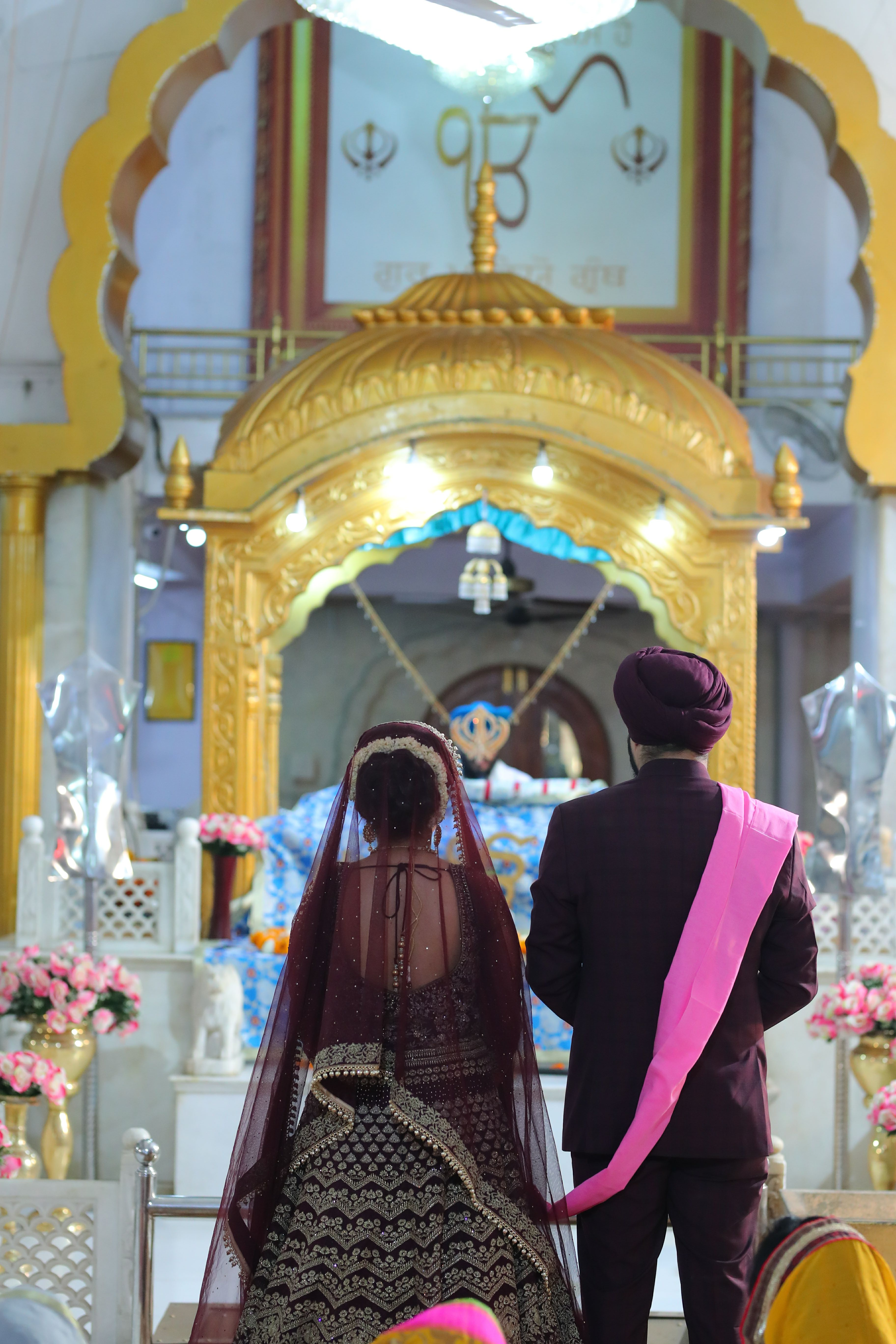 Sikh wedding ceremony in a Gurudwara (Sikh temple) in India This photo has been taken in the country: India